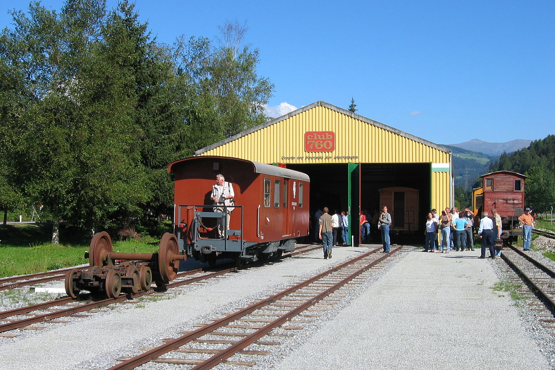 Frojach-Katsch railway museum and a Mariazellerbahn mailcar.